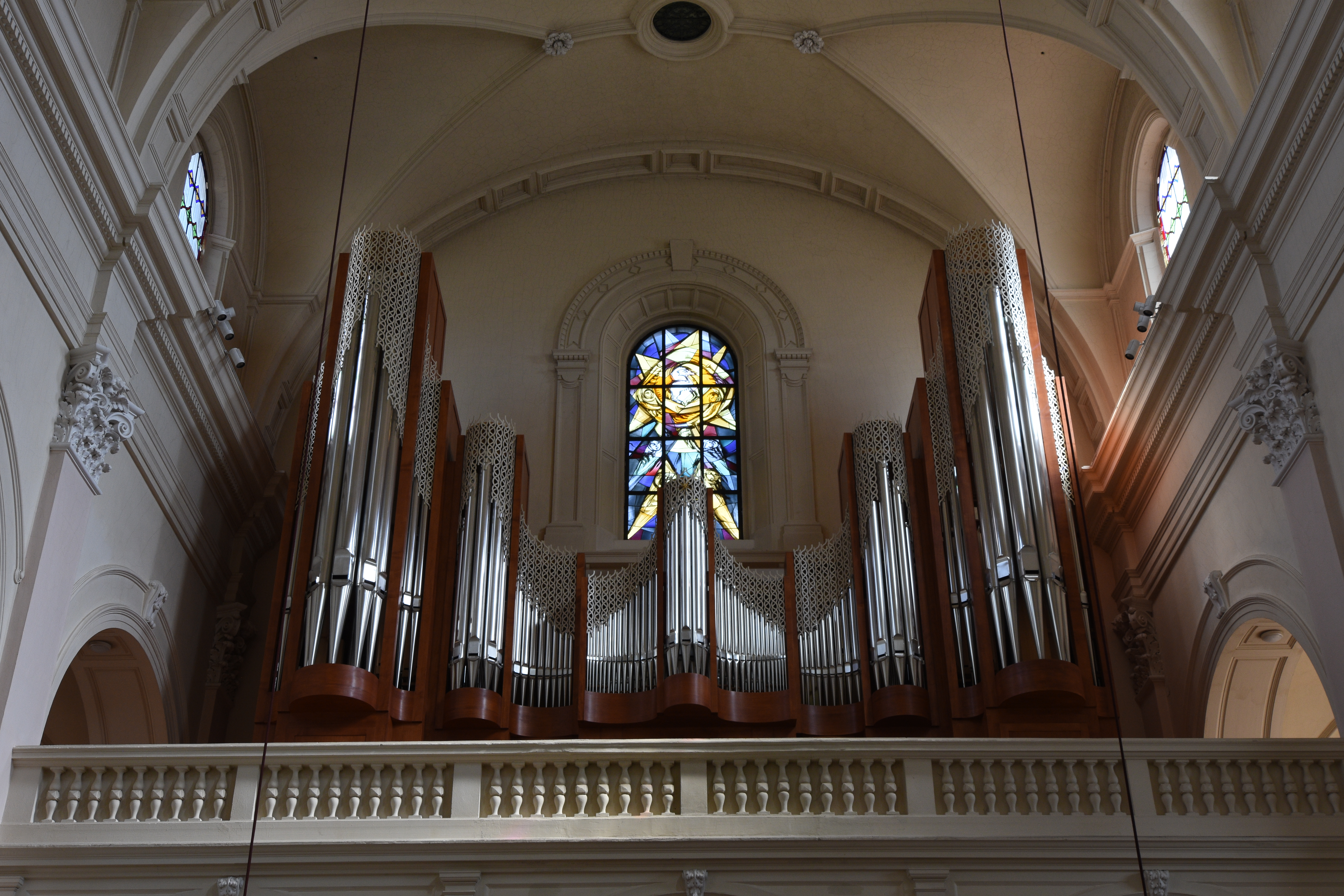 Pipe organs of Leonhardskirche, Feldbach, Styria.